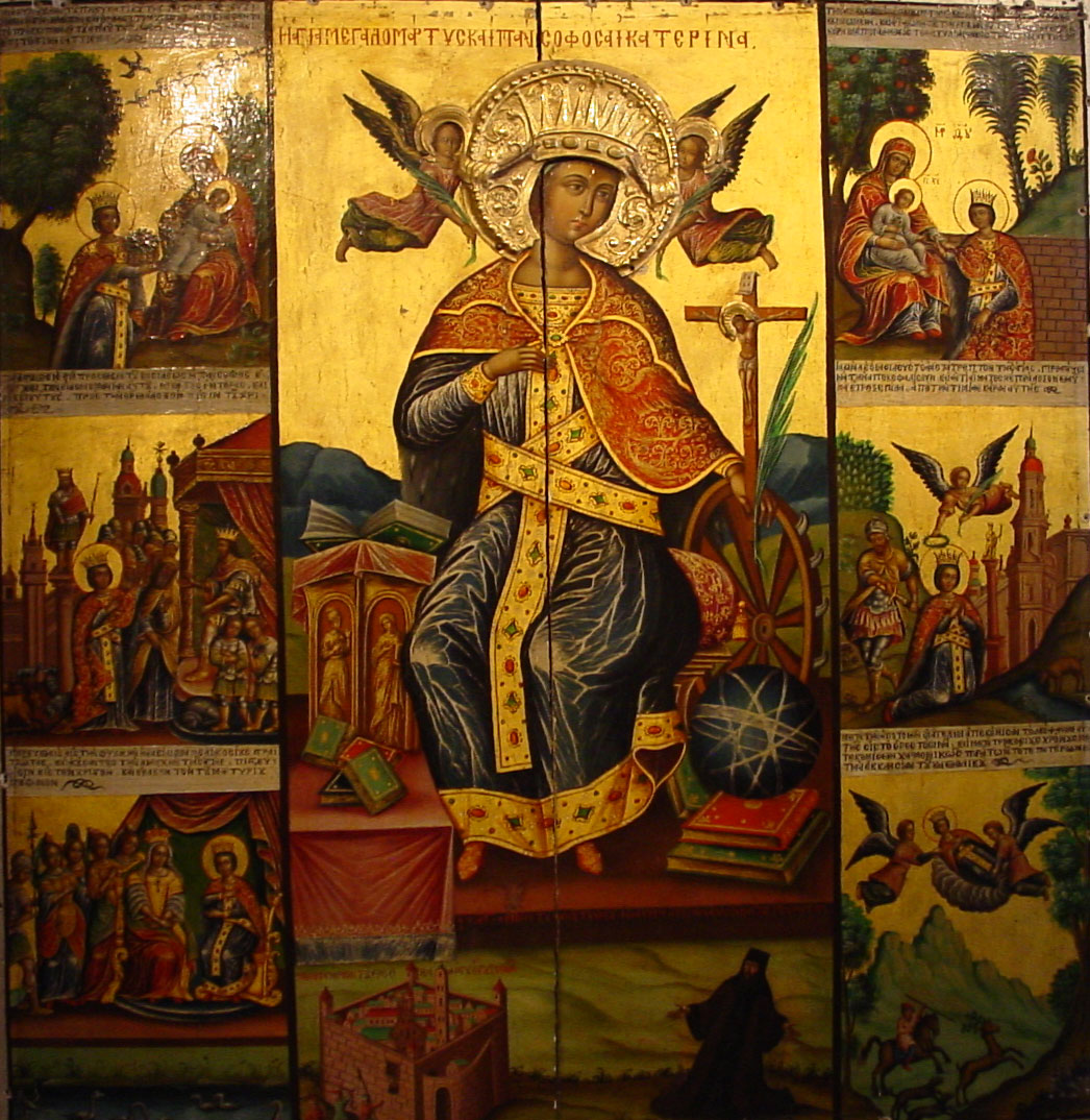 Icon of Saint Catherine (Saint Catherine's Monastery, Mount Sinai)